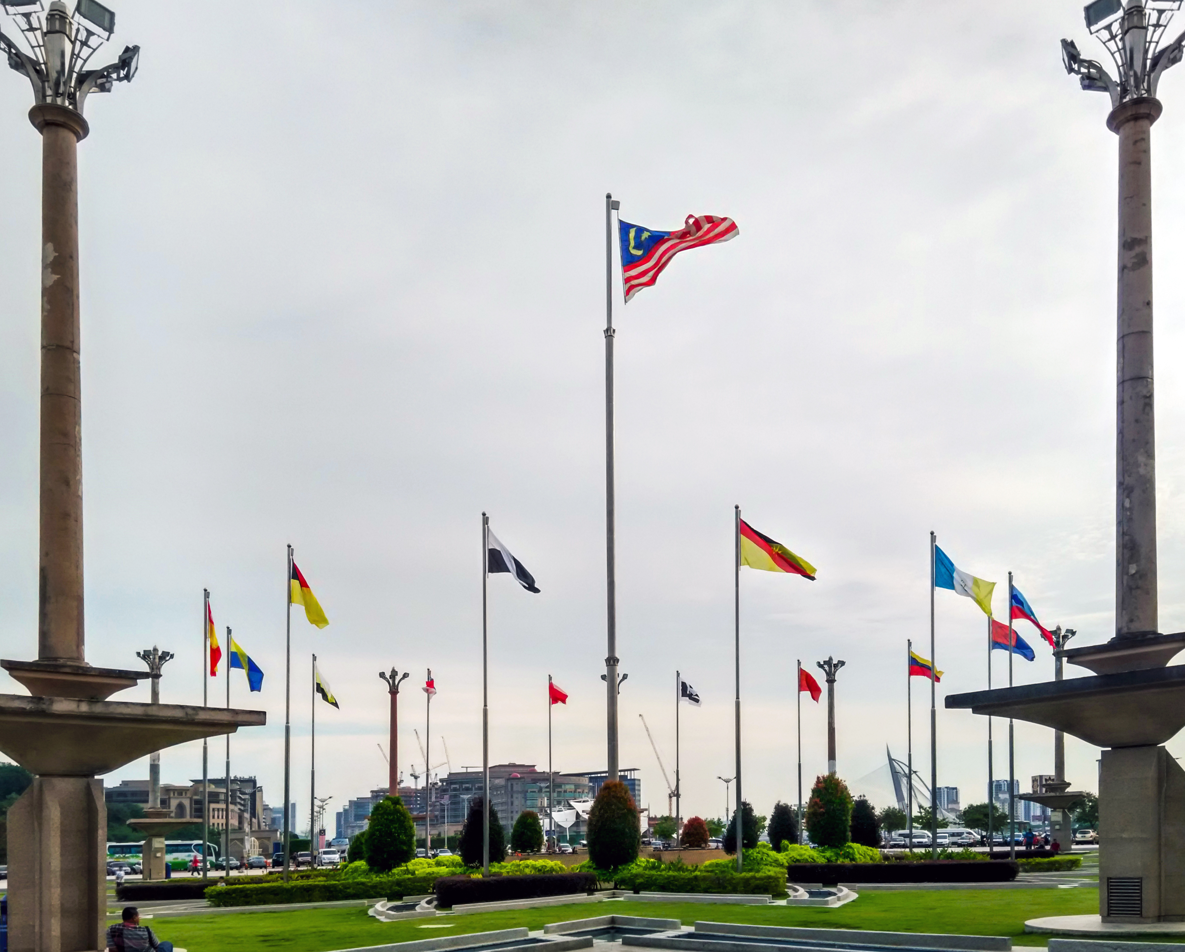 All 14 Malaysia state flags and Malaysia flag waving at Putra Square, Putrajaya, Malaysia.